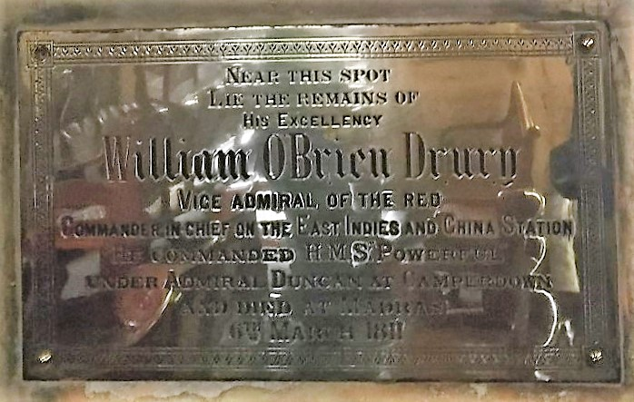 Memorial of William O'Bryen Drury, St. Mary's Cathedral, Madras